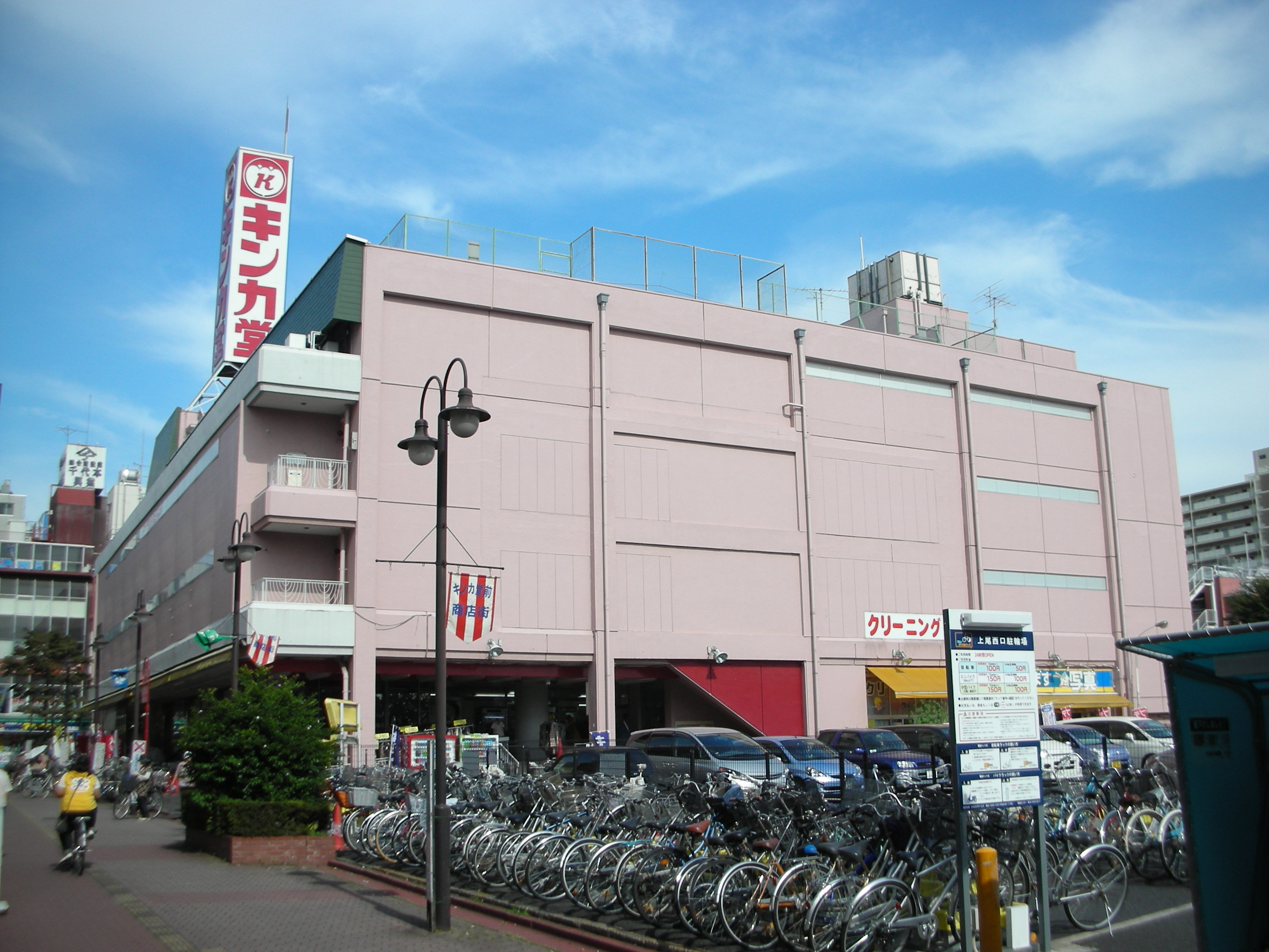 Kinkado Ageo